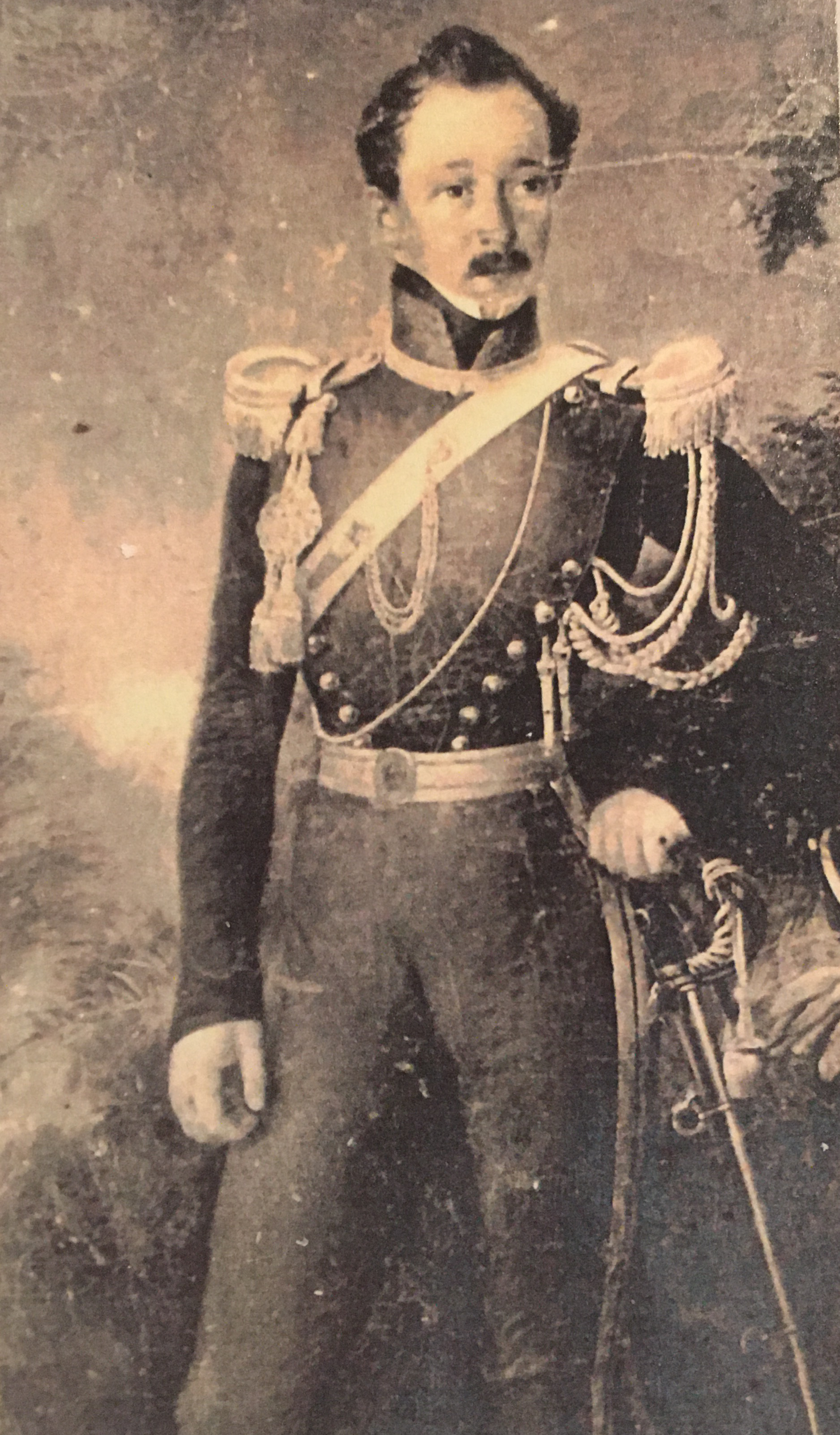 Général Narcisse Ablay